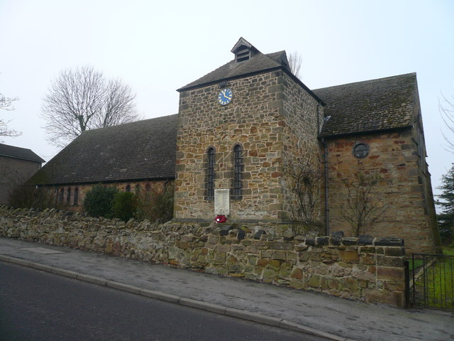 St Peter's parish church, Stonebroom, Derbyshire, seen from the southeast